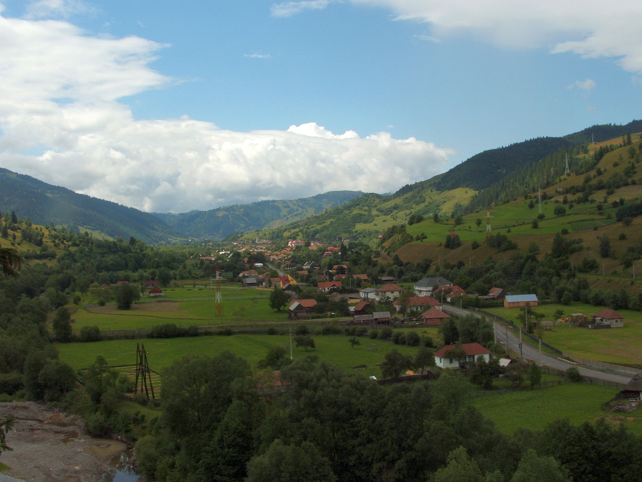 Ghimeş-Făget (Gyimesbükk) Bacău County, Transylvania, Romania